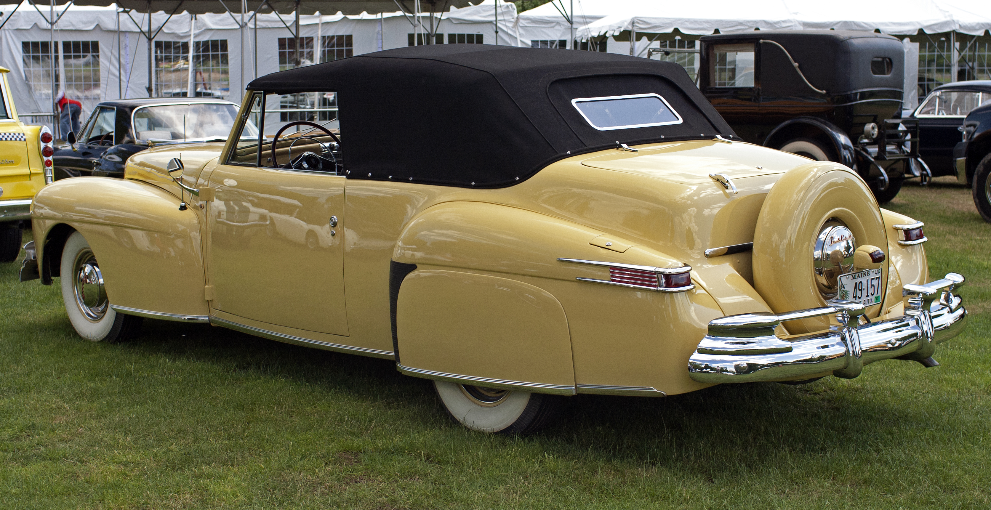 1948 Lincoln Continental Convertible, one of 452 in this the Conti's last year of production. Part of the Beardslee collection, this one has chassis number 8H171796 and was for sale at the June 3, 2012 Bonham's Auction at the Greenwich Concours d'Elegance.